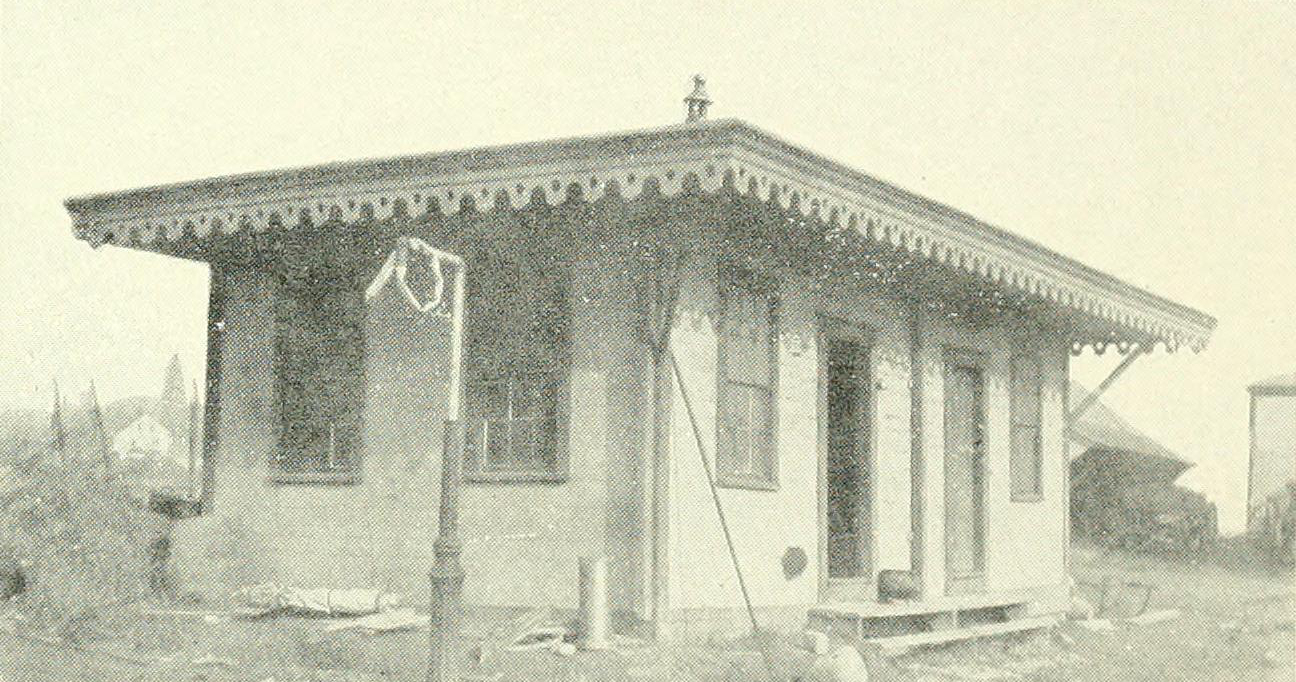 The first Park Street station in Medford, later used for storage in the Medford Highway Department